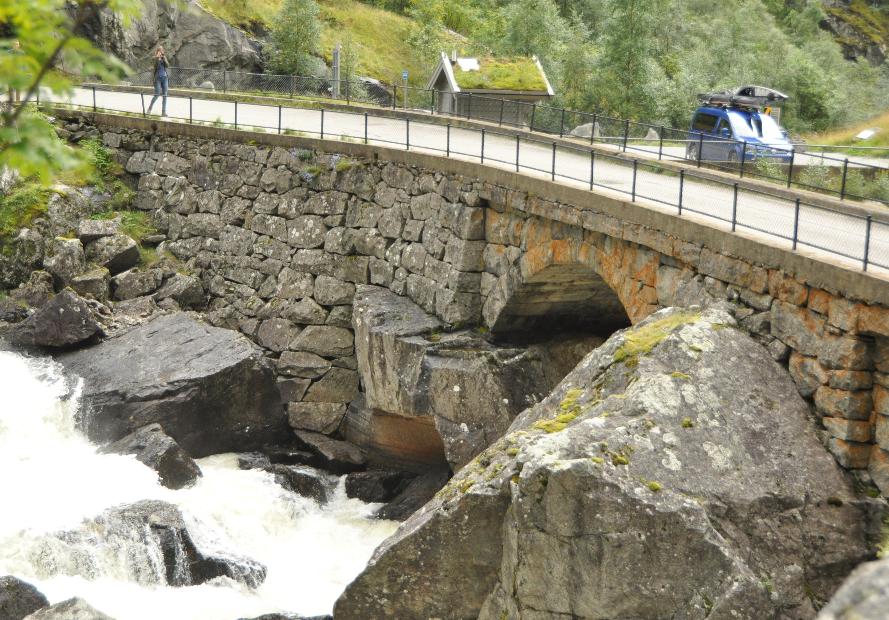 Måbø bru (Måbø bridge), Måbødalen, Eidfjord, near road 7. One masonry arch visible.